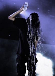 BONES at the Booking Machine Festival, Moscow 2018